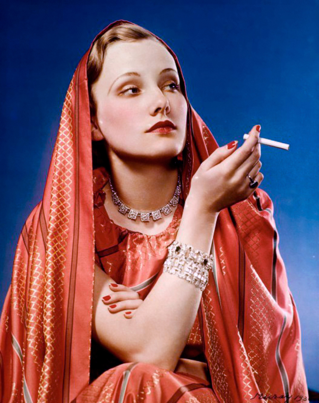 Accession Number: 1971:0034:0015 Maker: Nickolas Muray (American 1892-1965) Title: "LUCKY STRIKE, GIRL IN RED" Date: 1936 Medium: "color print, assembly (Carbro) process" Dimensions: Dimensions Unknown George Eastman House Collection General – information about the George Eastman House Photography Collection is available at For information on obtaining reproductions go to